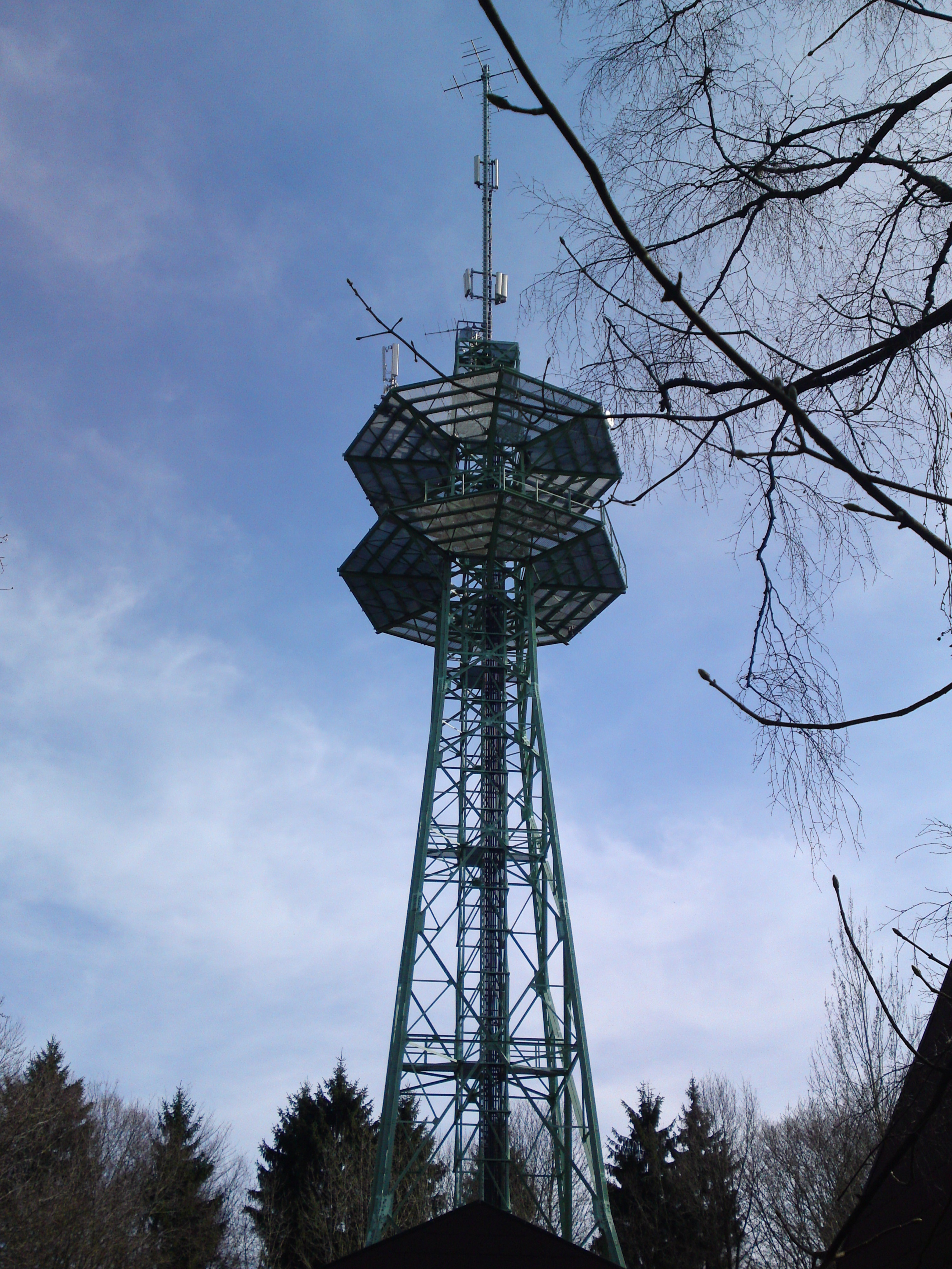 Transmitter tower of the transmitter Riedlingen (Oesterberg).